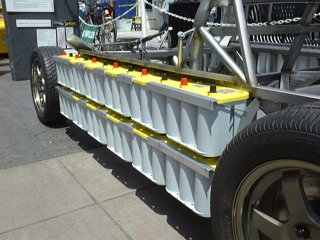 Original lead acid battery pack consisting of 28 Optima Yellow Tops. For AC Propulsion tzero